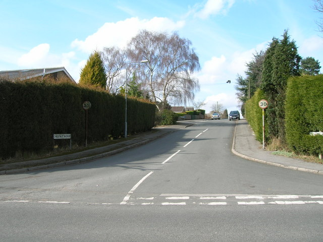 Chestnut Avenue, Ravenshead